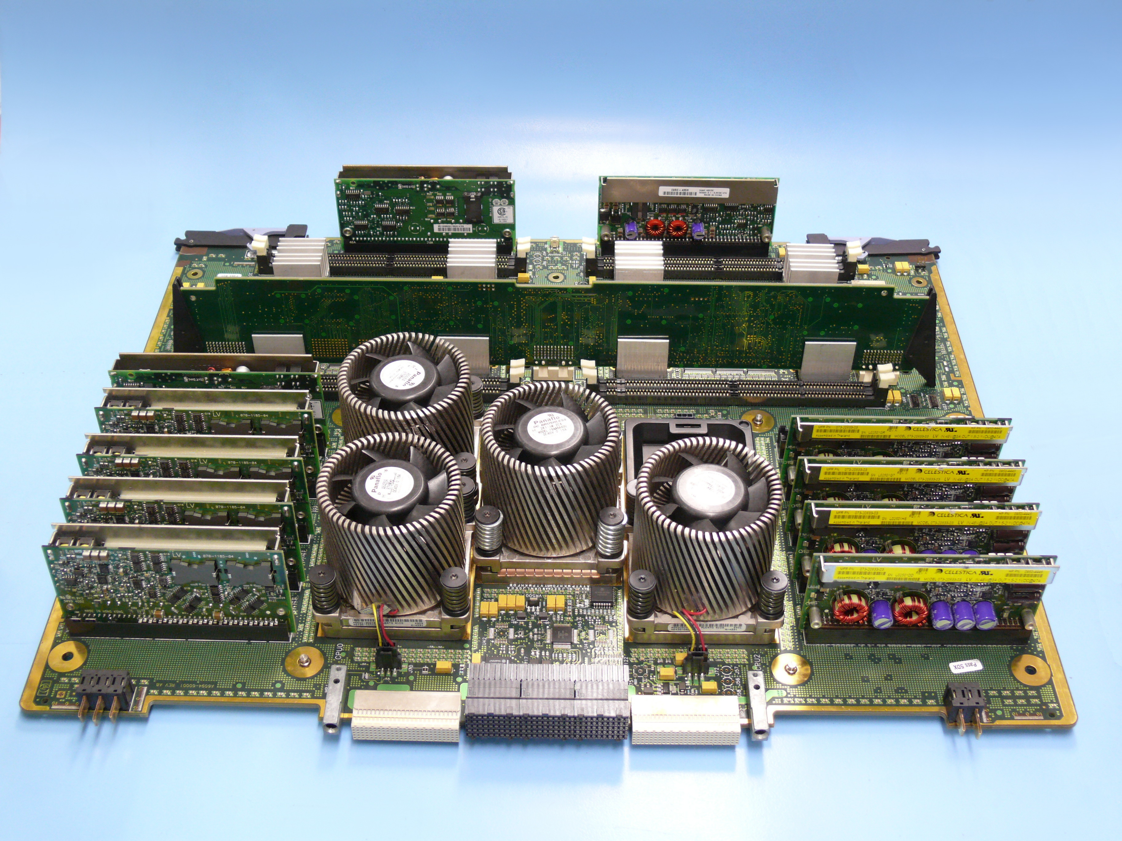 Hewlett-Packard HP9000 Integrity Server RP7410, CPU-Board for 4xPA-RISC 8700+ CPUs - 64 Bit - 875 MHz, HP-Part No.: A6094-60001